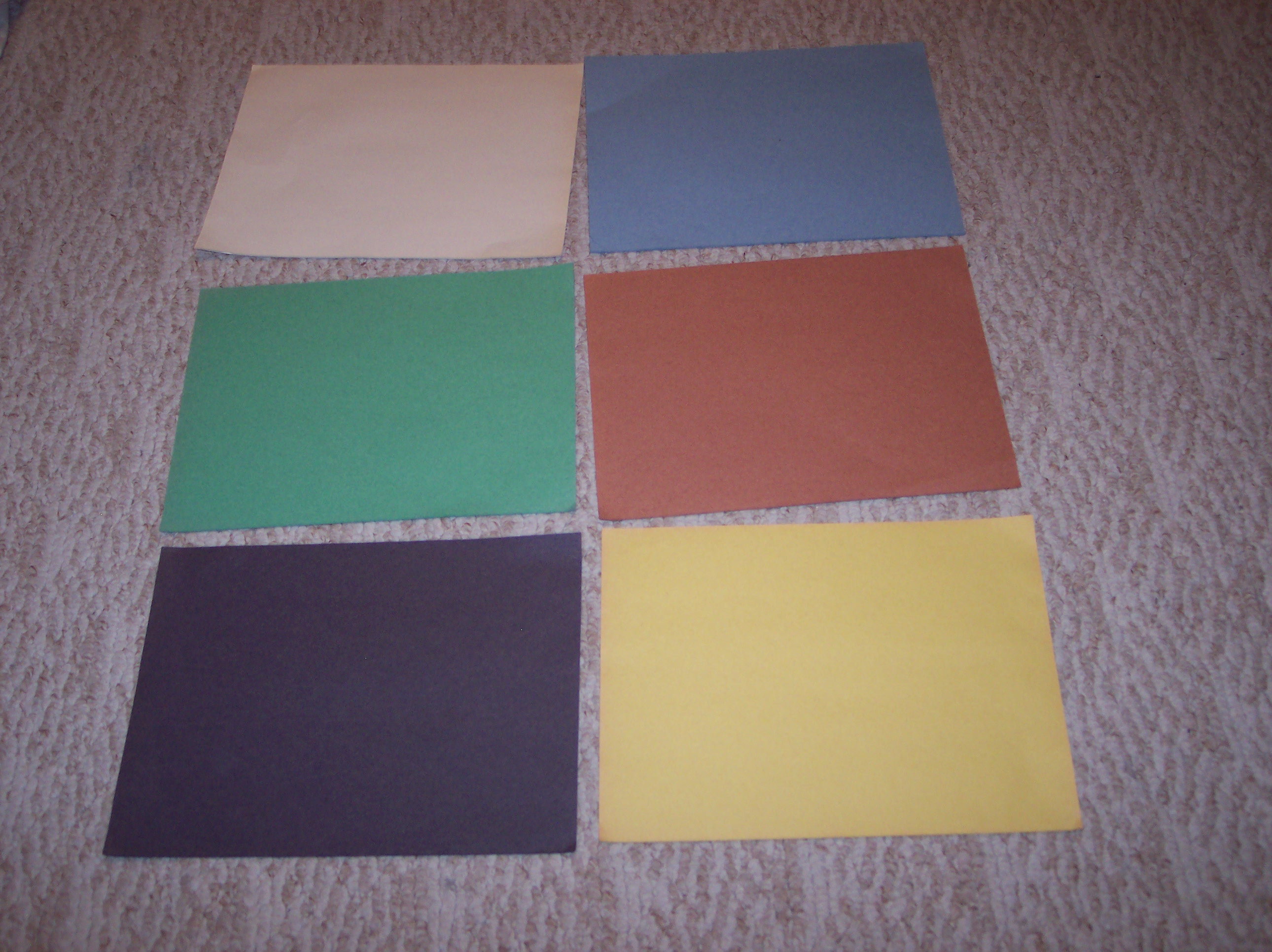 Some construction paper.